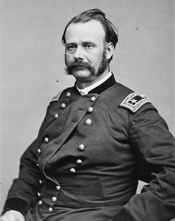 Maj. Gen. Lovell Harrison Rousseau.